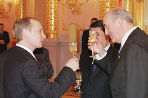 THE GRAND KREMLIN PALACE, MOSCOW. President Putin with Italian Ambassador Gianfranco Facco Bonetti.